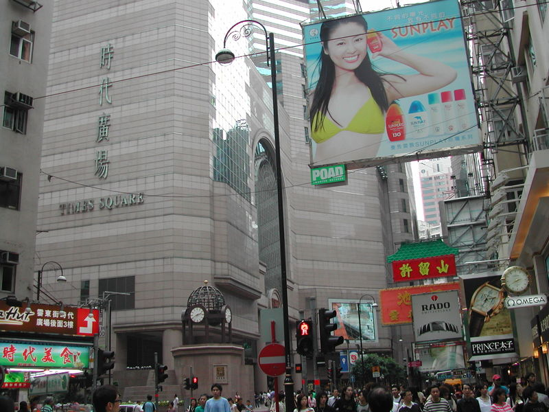 "Times Square" in Hong Kong